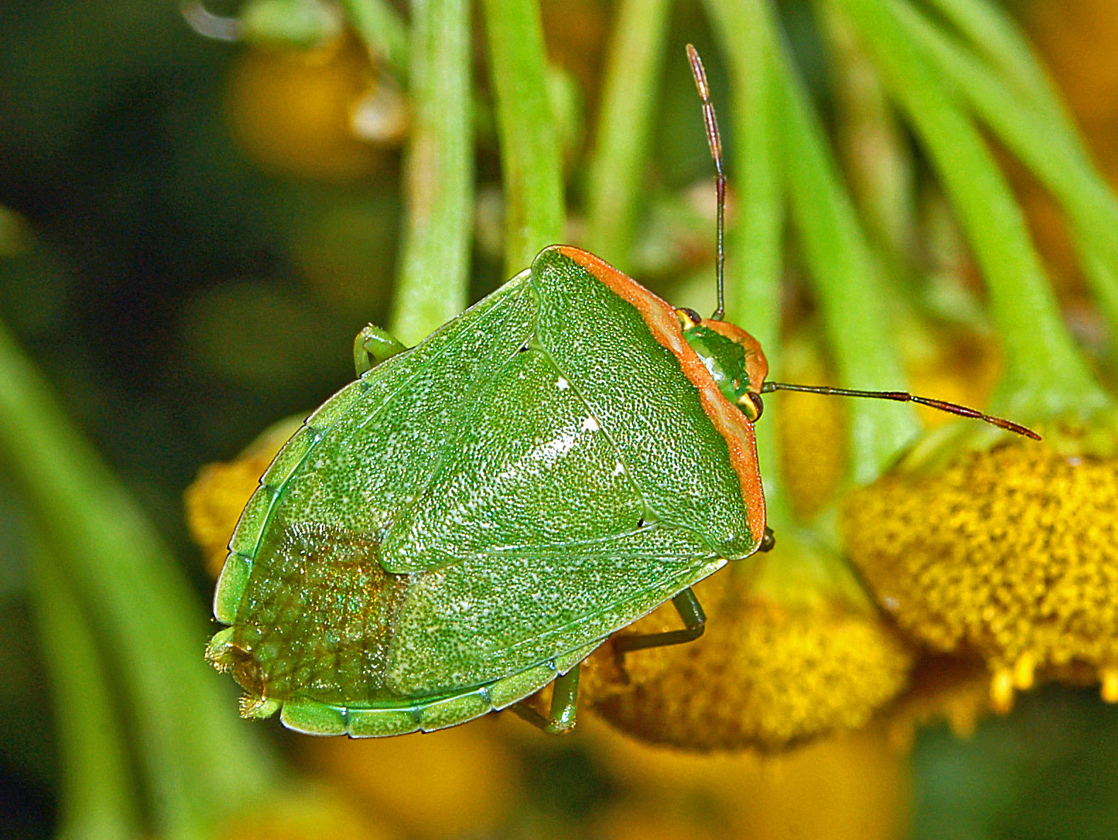 Pentatomidae - "Nezara viridula f. torquata". Busalla, Genova, Italy